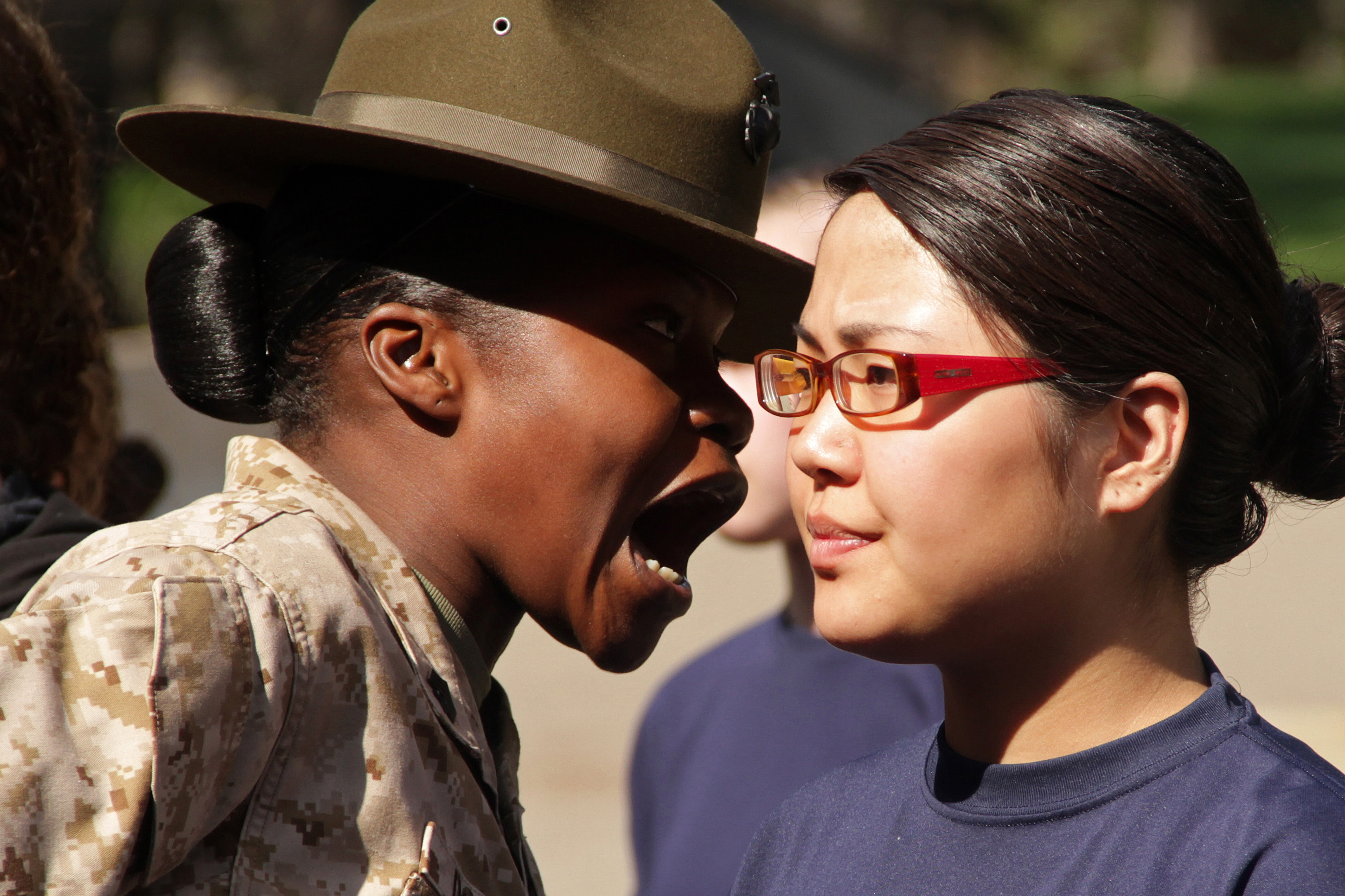 Drill instructor Sgt. Marline Dominic (left) explains to Rachel Murray the importance of sounding off during a pool function at the Minnesota Twin Cities Recruiting Station on March 24, 2010. Murray, a member of the Recruiting Station Delayed Entry Program, will ship off to boot camp later this year.